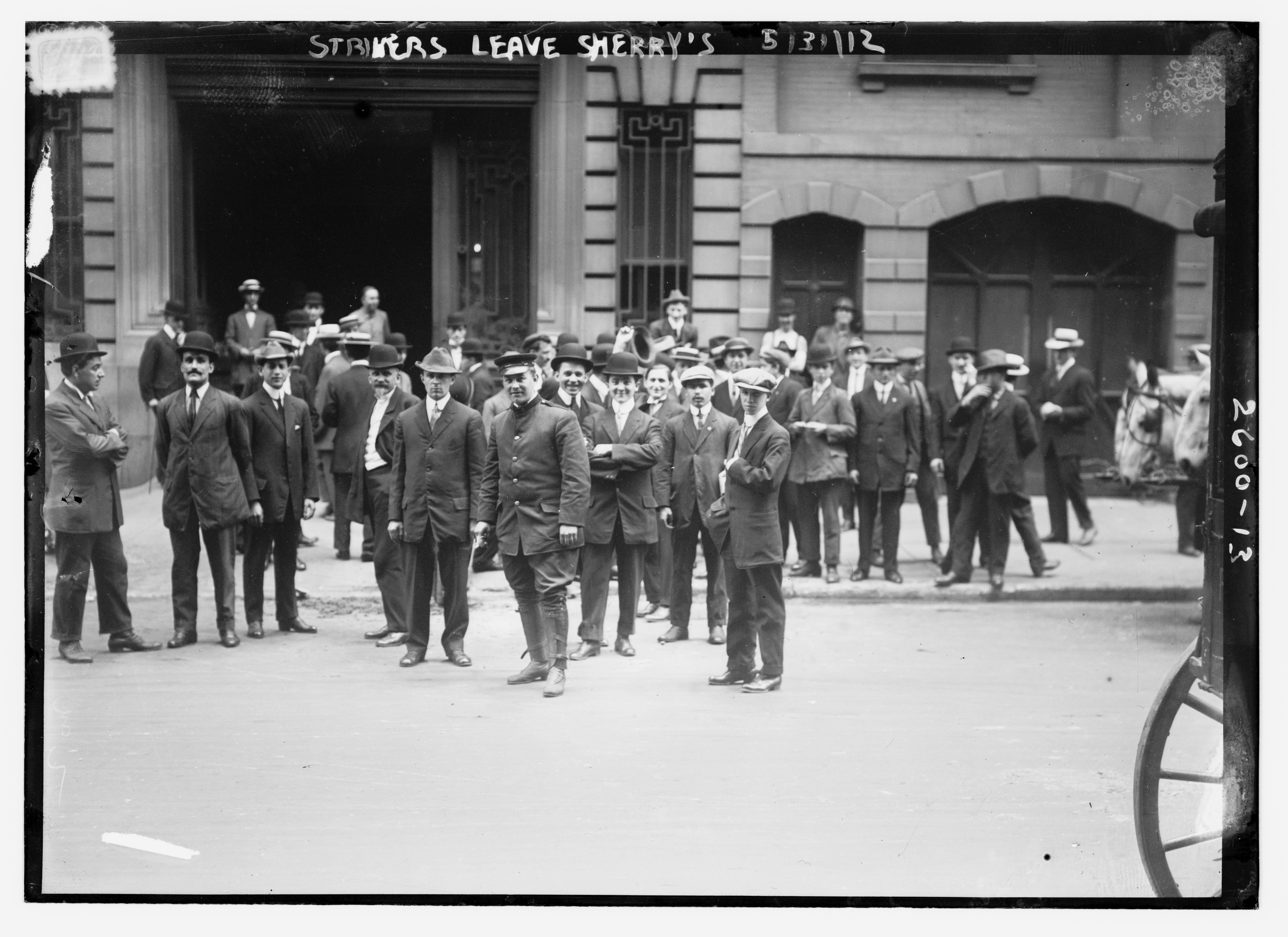 1912 New York City waiters' strike if 1912 Bain News Service,, publisher. Strikers leave Sherry's [no date recorded on caption card] 1 negative : glass ; 5 x 7 in. or smaller. Notes: Title from unverified data provided by the Bain News Service on the negatives or caption cards. Forms part of: George Grantham Bain Collection (Library of Congress). Format: Glass negatives. Repository: Library of Congress, Prints and Photographs Division, Washington, D.C. 20540 USA, General information about the Bain Collection is available at Persistent URL: Call Number: LC-B2- 2600-13